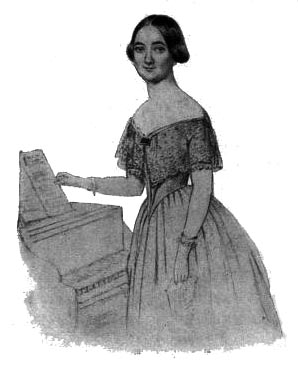 Hertha Westerstrand